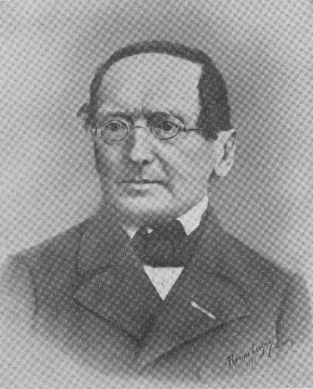 portrait of Friedrich Gustav Weidauer (1810-1897), mayor of Schwarzenberg/Erzgeb.